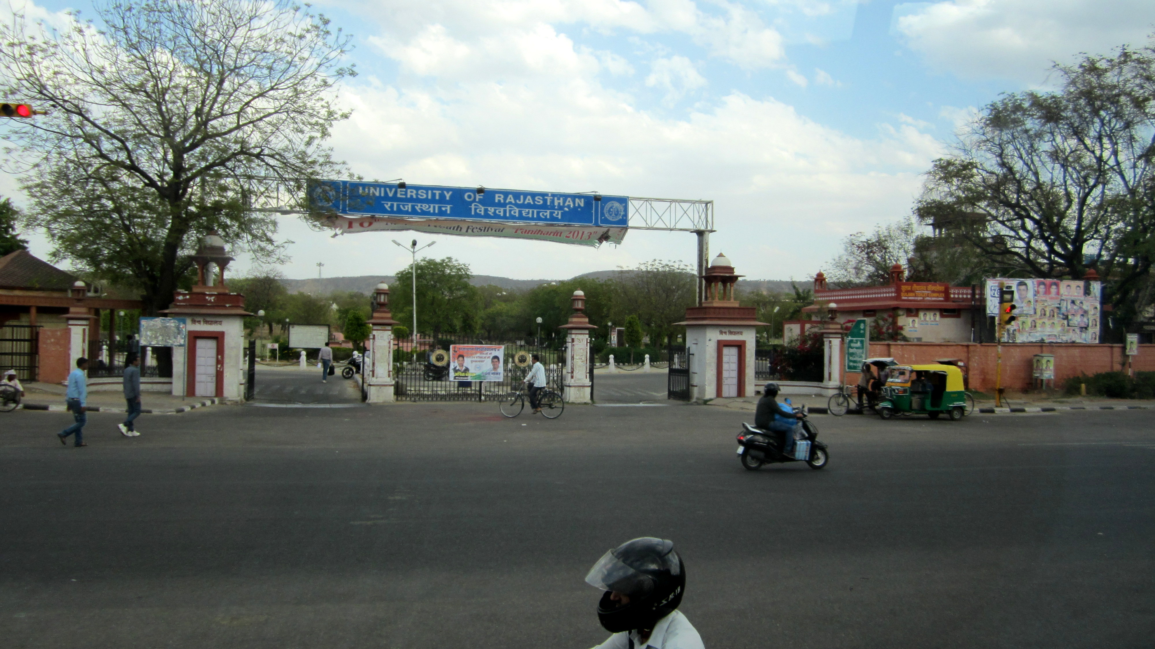 Entrance gate of Rajasthan University from Jawaharlal Nehru Road